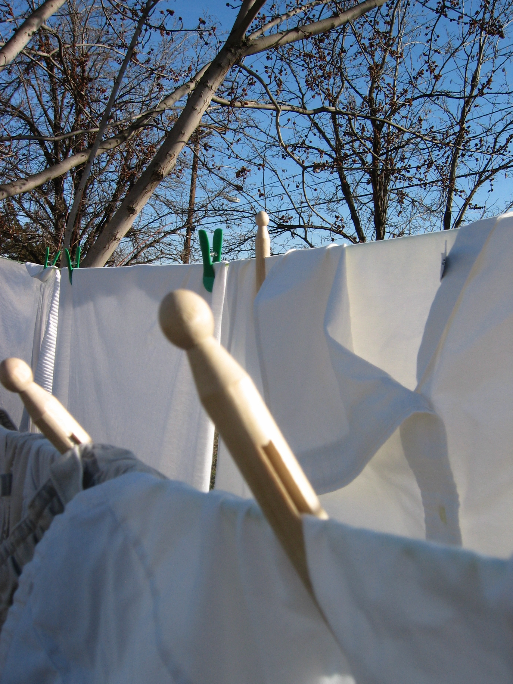 Clothespin in place. Oregon, USA